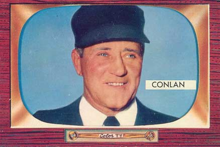 Former Major League Baseball umpire Jocko Conlan in 1955.